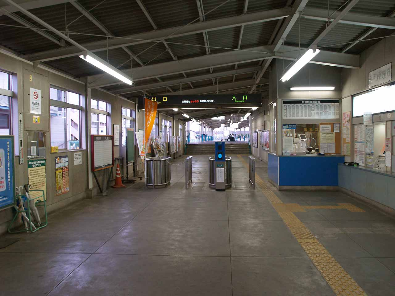 Concourse of Nishi-kawada station.